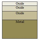 A diagram showing various transition metal oxides formed on the surface of a metal.